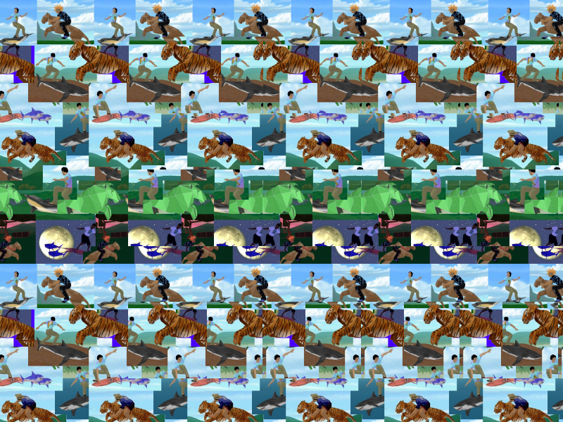 Autostereogram Tutorial Rectangle Stereogram Description: 3 rectangles floating on top of an autostereogram background. Source: Fred Hsu, March 2005.